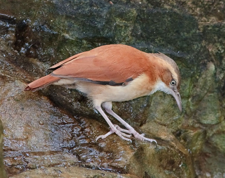 Pale-legged Hornero